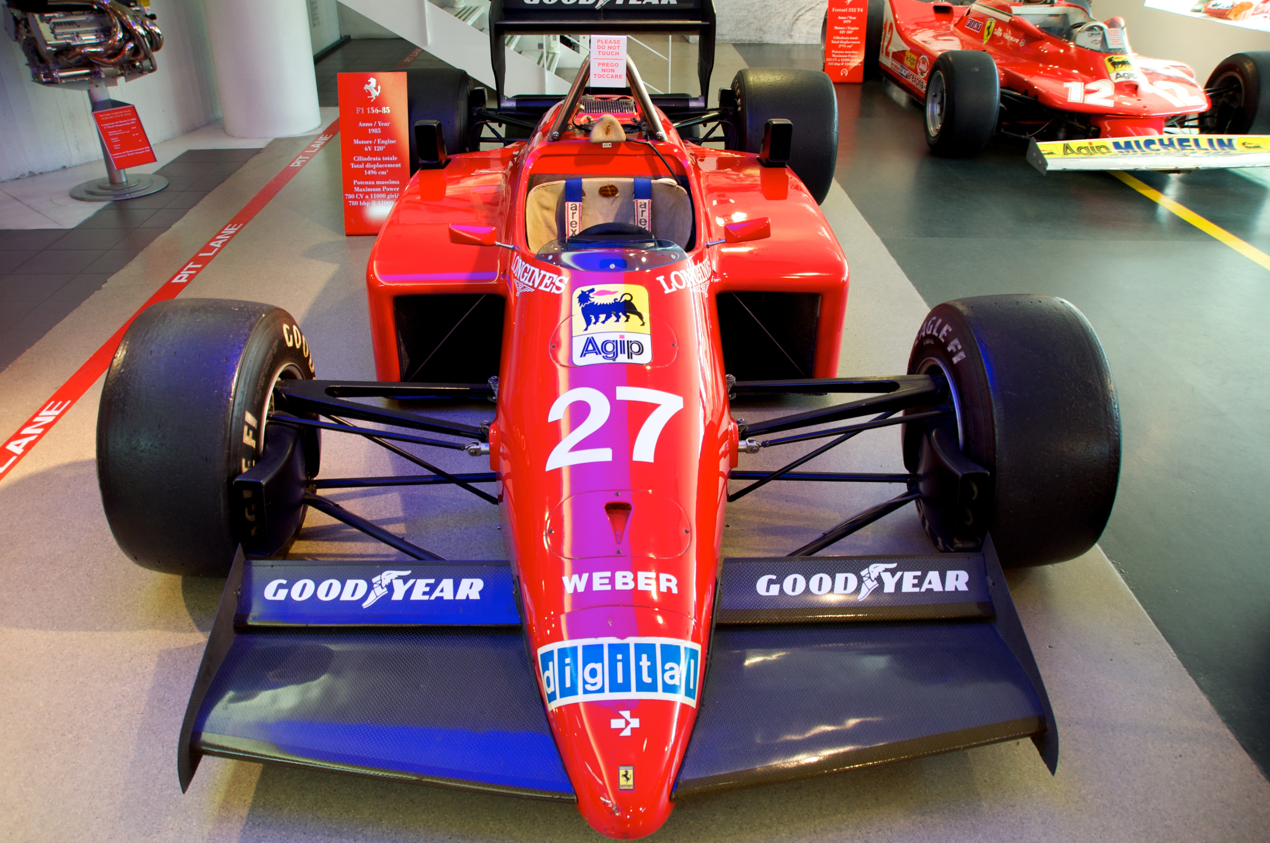 Ferrari 156-85 in the Galleria Ferrari (later: "Museo Ferrari") on September 28, 2010. It was built as a gift for Enzo Ferrari’s 87th birthday as he had said that what he really wanted was a completely new single-seater. The car’s name hinted at a plethora of new features as the 1 and 5 referred to its 1500 cc capacity and the 6 to its number of cylinders. Alboreto was first across the line in it in the Canadian and German Grands Prix in a year in which Harvey Postlethwaite was GES technical director. Arnoux and Alboreto both held onto their seats as official Prancing Horse drivers too.